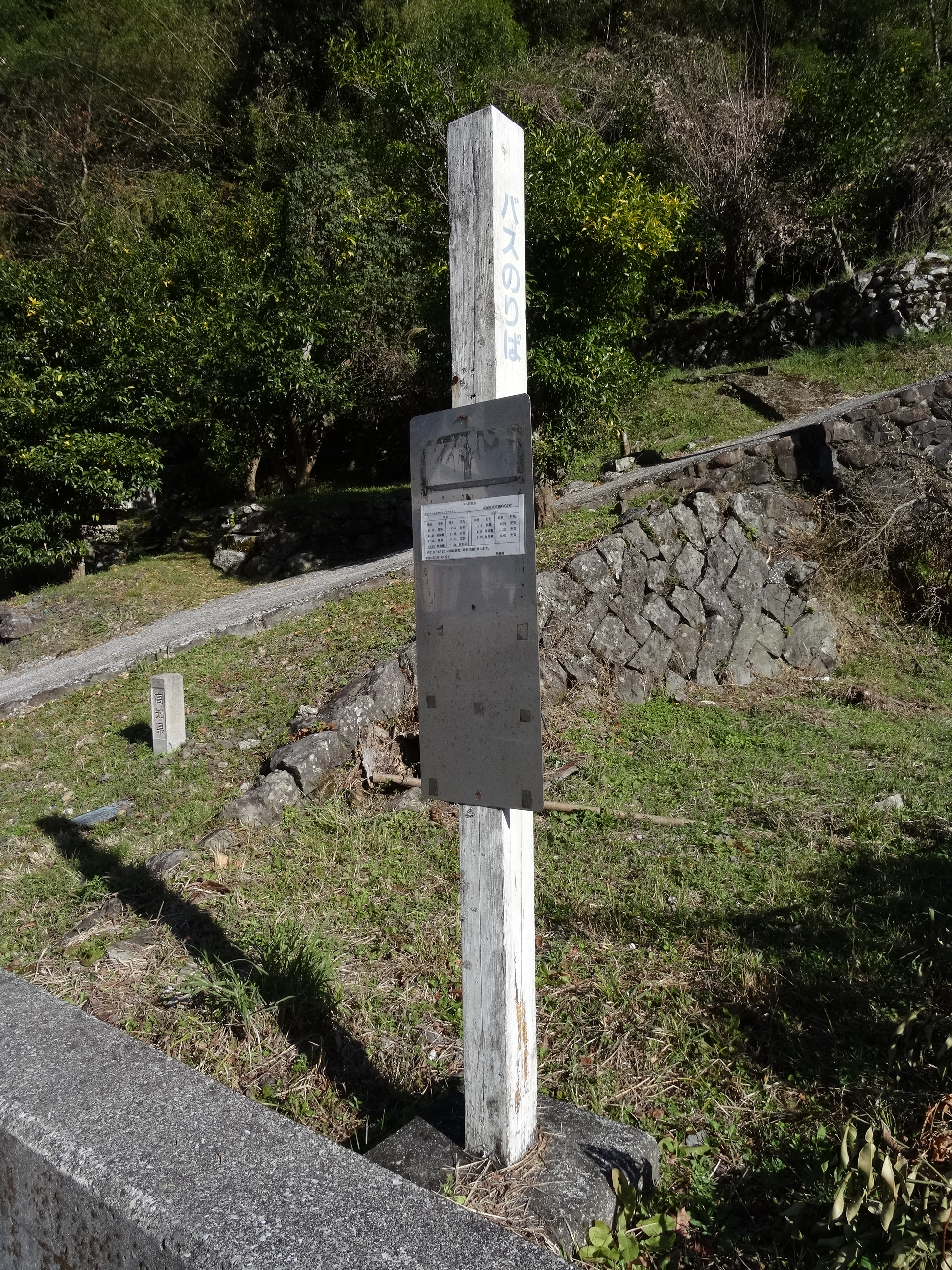 Umajibashi